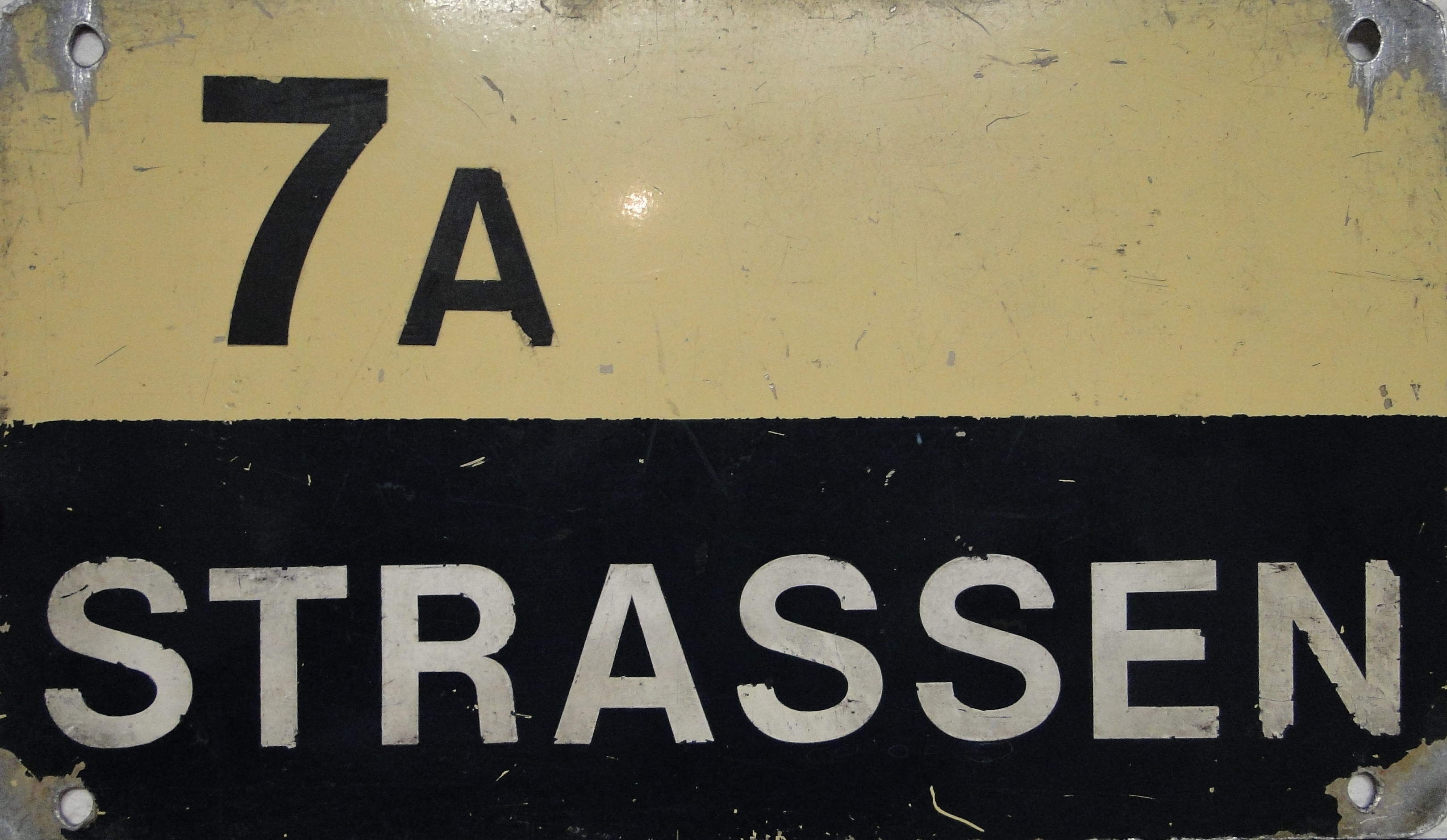 Luxembourg, AVL: old destination sign of route 7A displayed behind windshieldDeitsch: Luxemburg, AVL: altes Zielschild der ehemaligen Linie 7A welches hinter der Windschutzscheibe angebracht war.